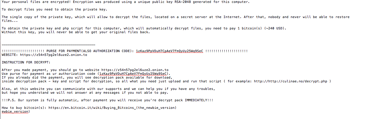 Content of "readme_for_decryption.txt" file of an infected Linux by Linux.Encoder.1